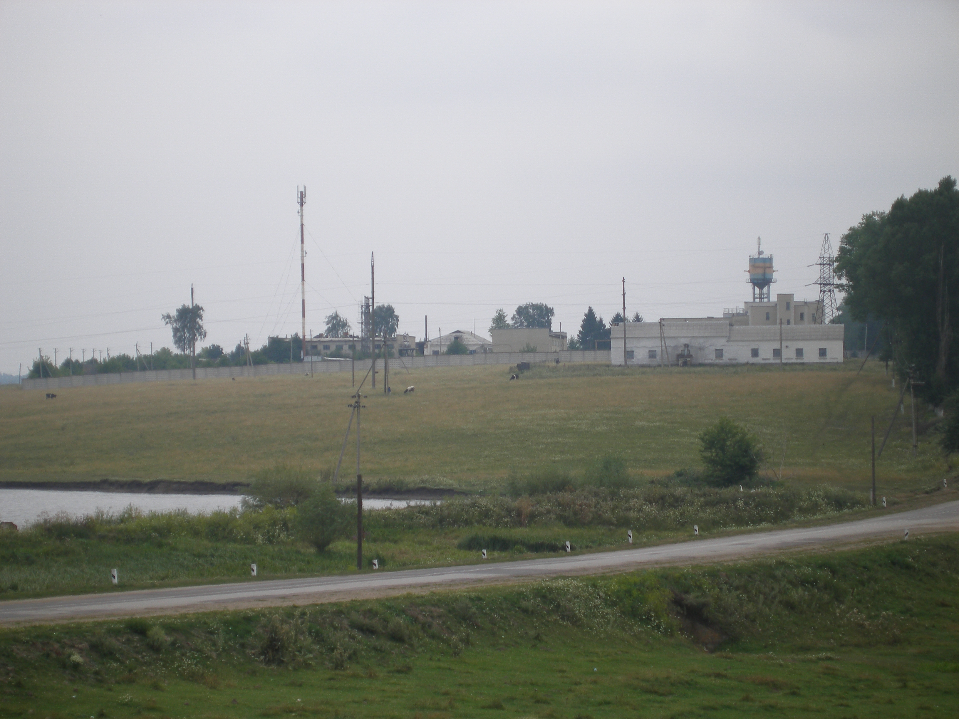 Food factory in Bazalia, Khmelnytskyi Oblast, Ukraine.